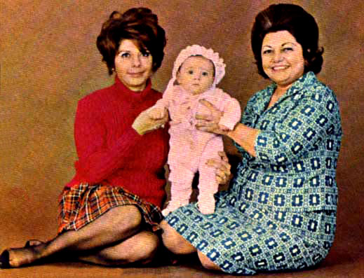 Hamide Kheyabadi, famous Iranian actress, has posed with her daughter Soraya Ghasemi - who is an actress too - and her grandchild.